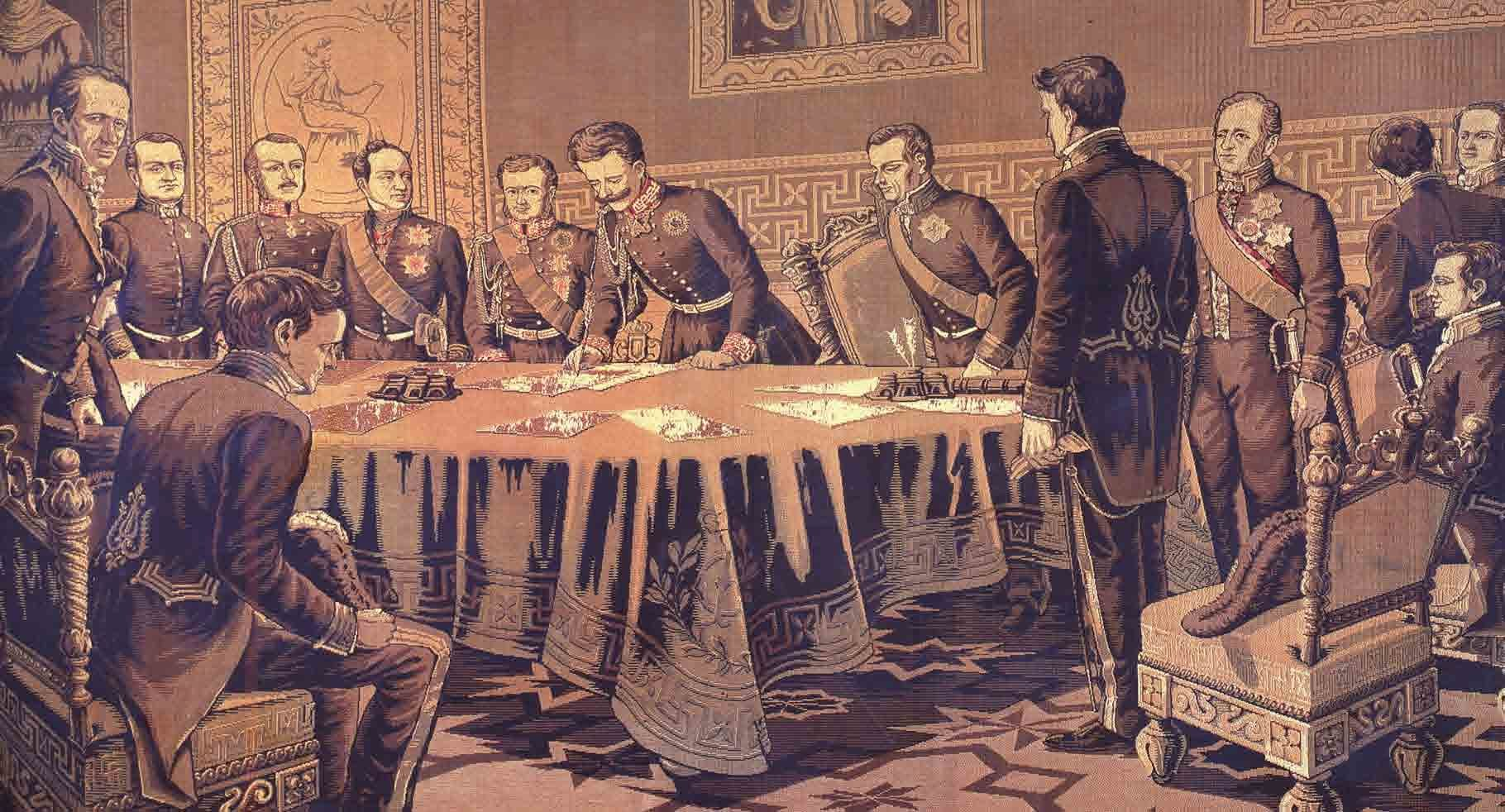 Charles Albert of Sardinia signs the Statuto Albertino, the constitution of March 4, 1848.